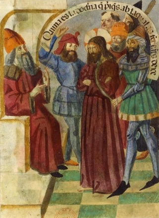 Jesus and Annas